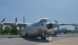 The last of the 50 C-133s on display at the AMC Museum in Dover, Delaware.